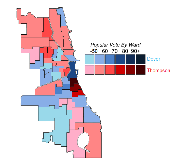 Results of Chicago's 1927 mayoral election by ward. Ward map adapted with permission from . Colors adapted from File:Chicago_aldermanic_elections,_2015_-_Results_By_Ward.svg with addition of sub-50% colors. Lake Calumet was not a part of any ward. Data is from canvassing sheet aperture cards available at the Harold Washington Library courtesy of the Board of Elections Commissioners of Chicago.